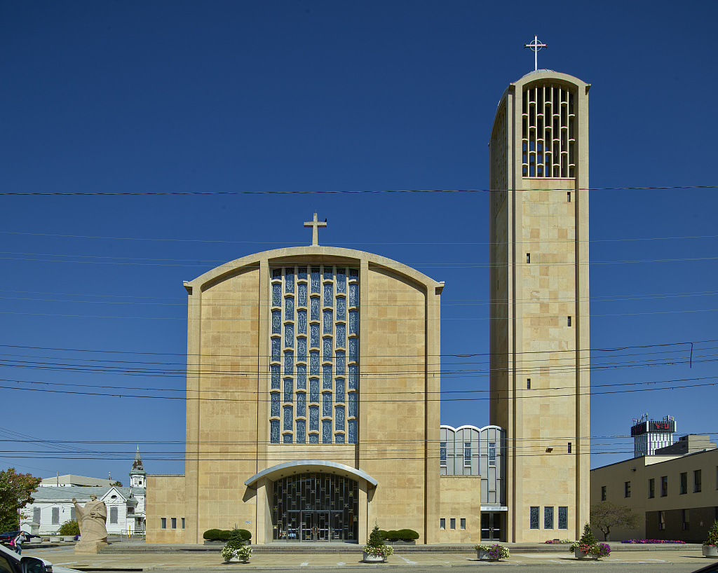 Title: St. Columba Catholic Cathedral in Youngstown, Ohio, which houses the seat of the Diocese of Youngstown. Physical description: 1 photograph : digital, tiff file, color. Notes: Purchase; Carol M. Highsmith Photography, Inc.; 2016; (DLC/PP-2016:103-4).; Forms part of: Carol M. Highsmith Archive.; Credit line: Photographs in the Carol M. Highsmith Archive, Library of Congress, Prints and Photographs Division.; Title, date and keywords based on information provided by the photographer.